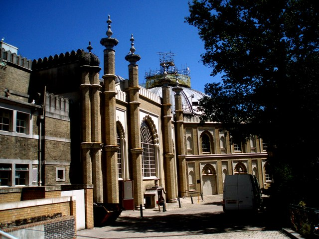 Brighton Dome Viewed from the rear of the building showing the stage door